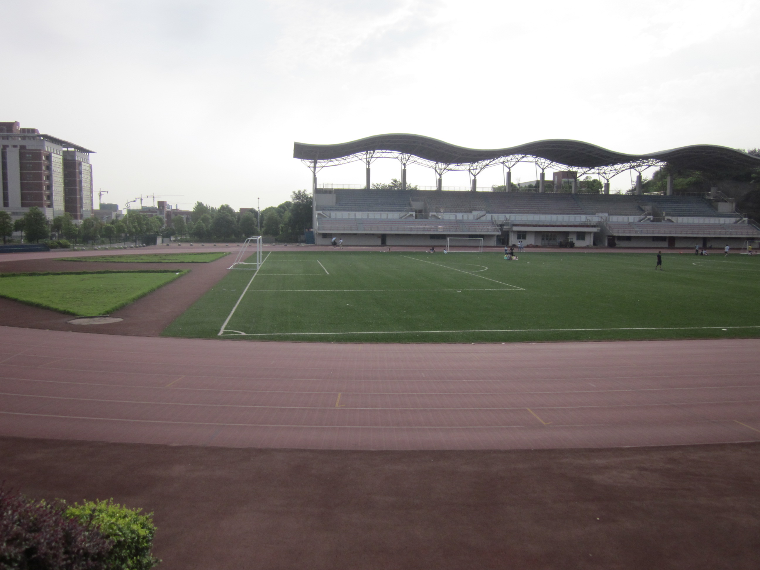 Changsha University of Science and Technology(CSUT; simplified